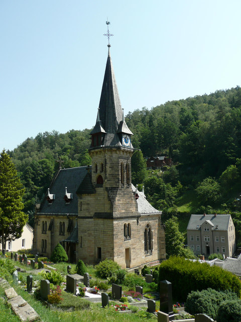 This image shows the evangelic church in Krippen.